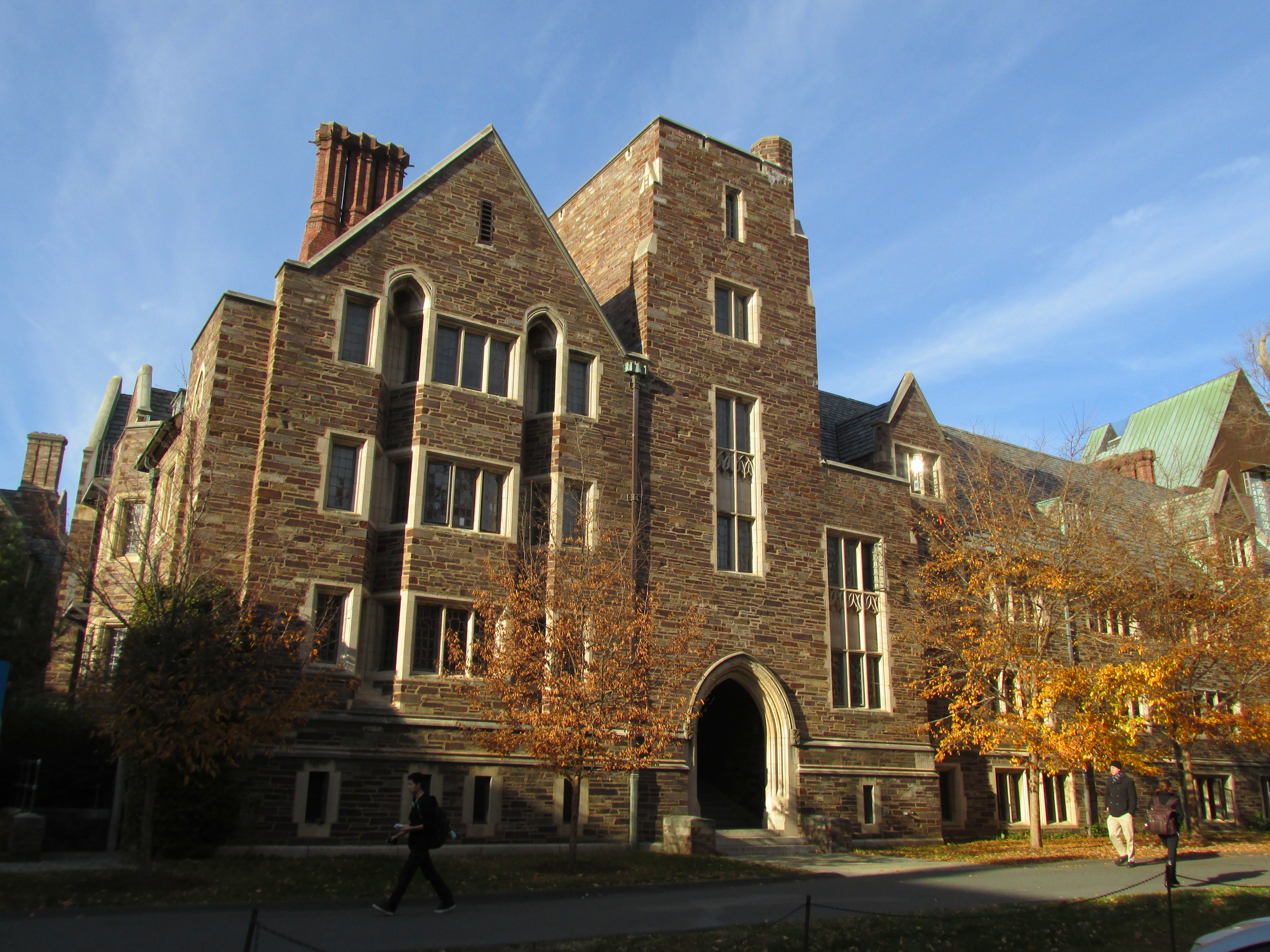 Walker Hall, Wilson College, Princeton University, Princeton New Jersey